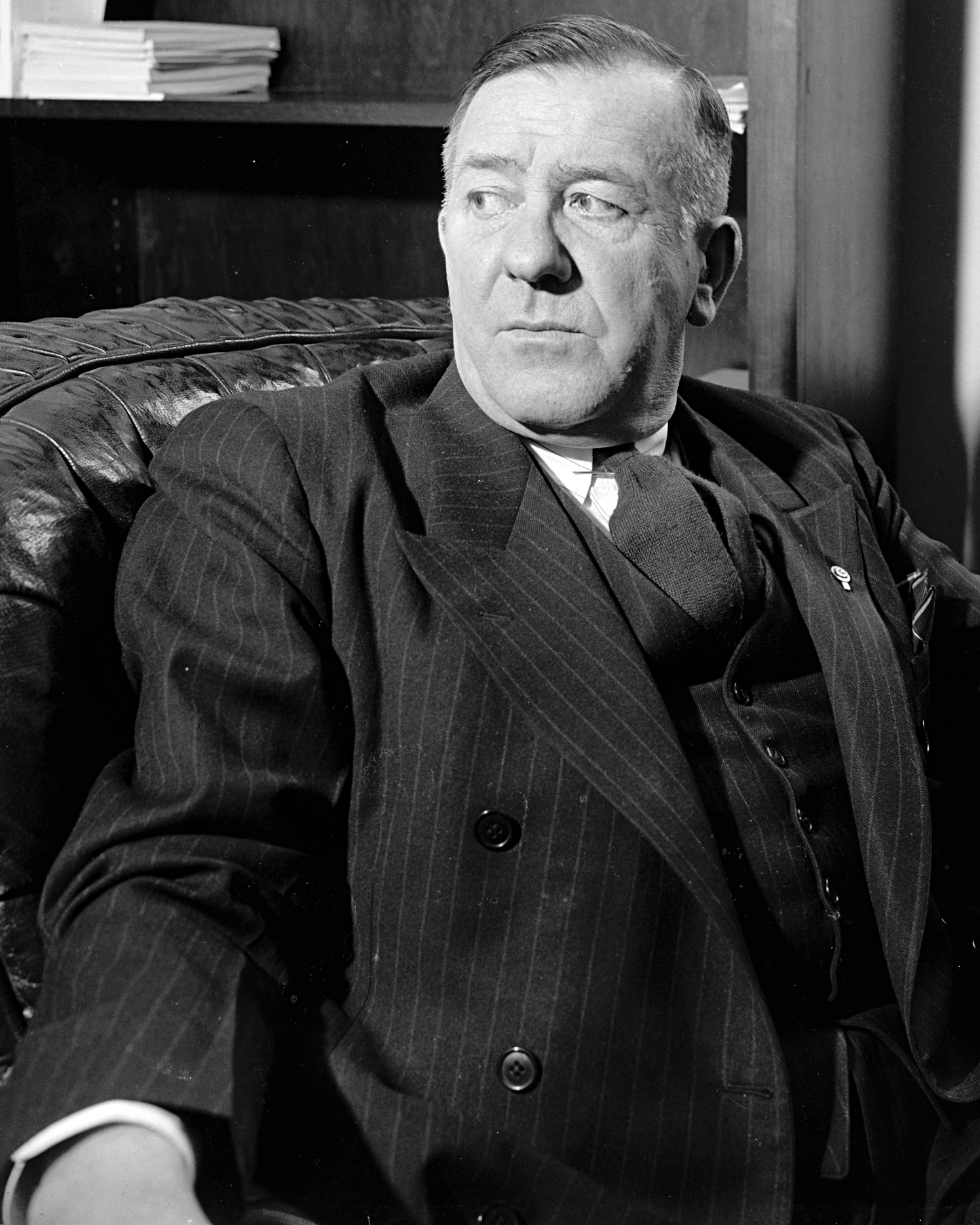 Raymond S. Springer, US Representative from Indiana